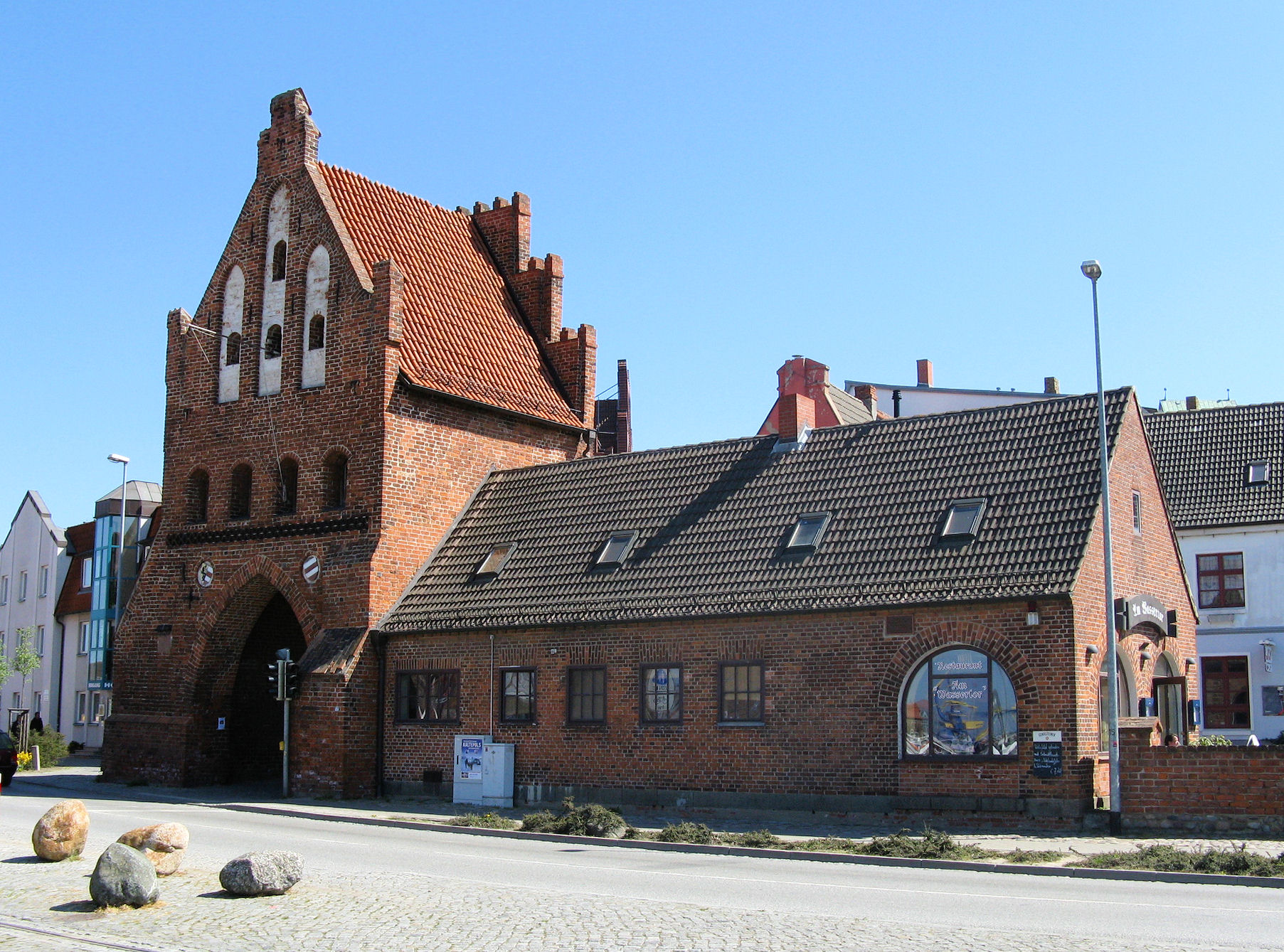 Water Gate in Wismar, Mecklenburg-Vorpommern, Germany